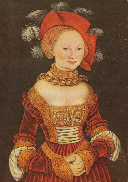 This painting is the middle part of The Princesses Sibylla (1515-1592), Emilia (1516-1591) and Sidonia (1518-1575) of Saxony